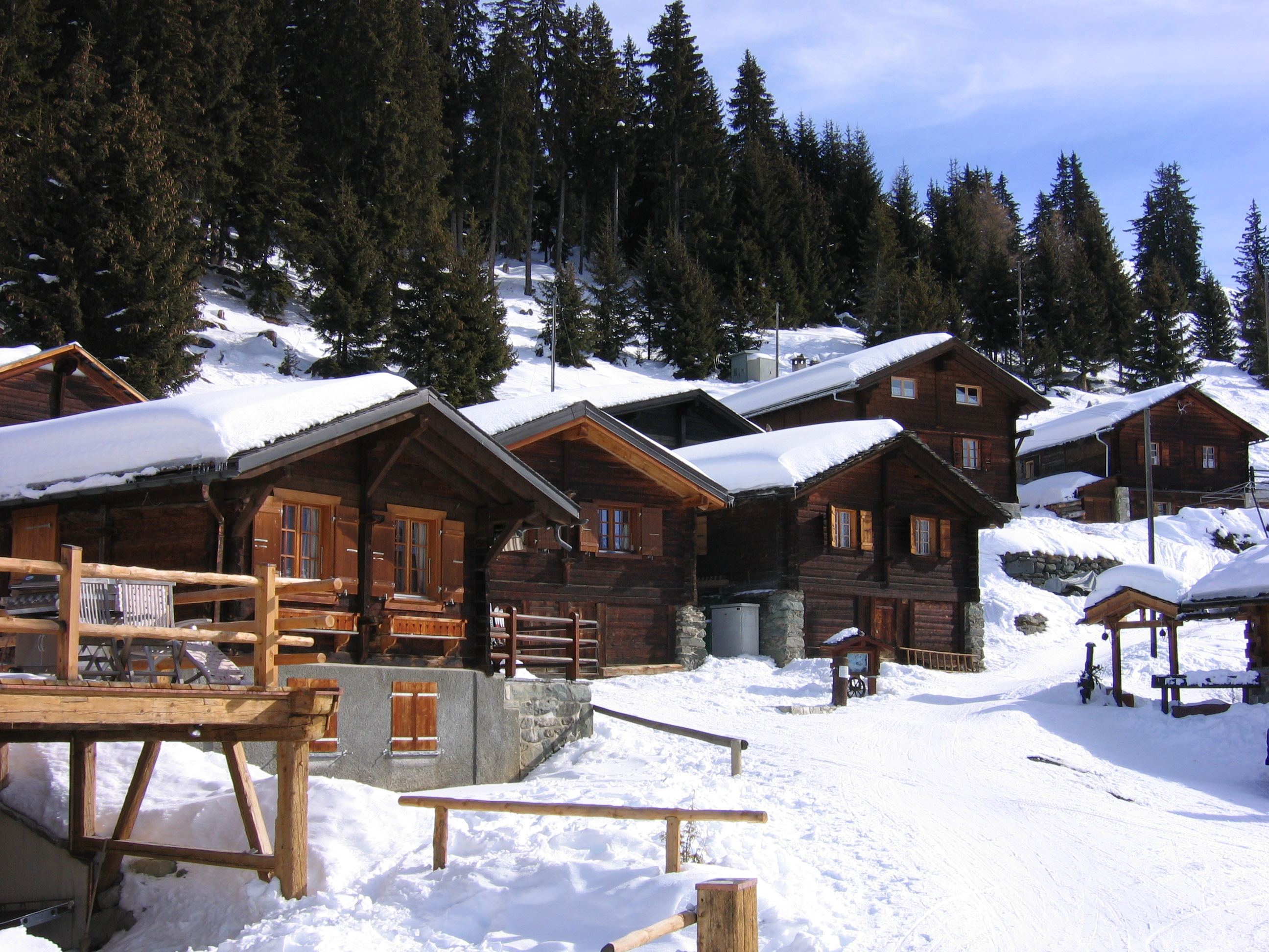 Verbier, canton Valais